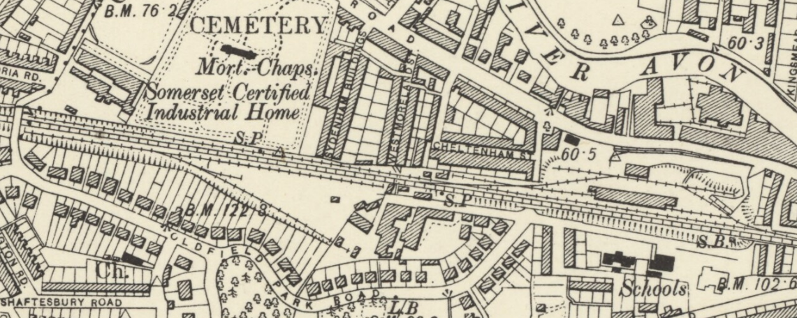 Map showing Westmoreland Road goods yard and its associated down side sidings (Bath West) on the other side of the Westmoreland Road railway bridge. This map fragment is taken from the OS Six-inch England and Wales map series - Somerset XIV.NW, revised 1902.